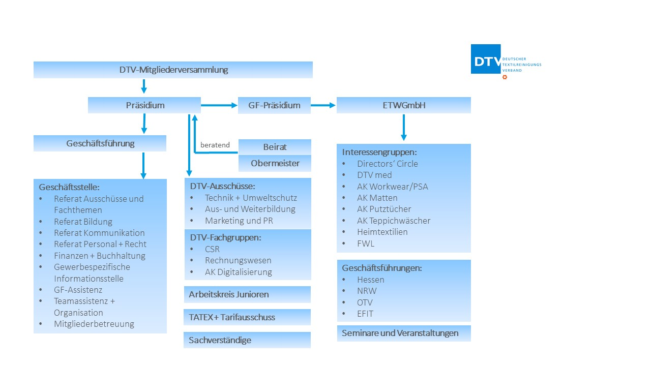 Organization chart of the DTV